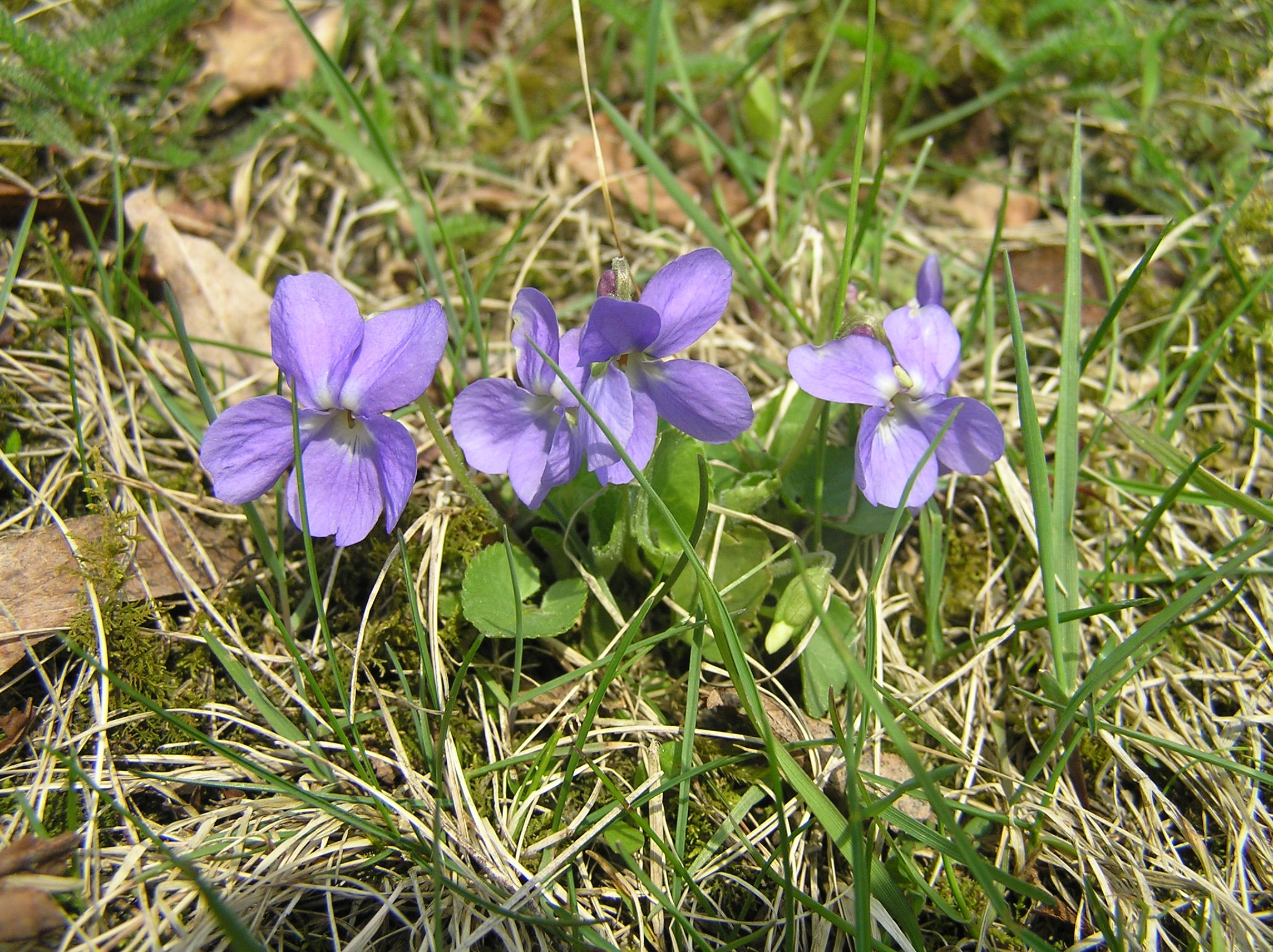 Viola hirta, in the village Pitín, Bílé Karpaty Mountains, Czech Republic